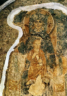 Fresco "Madonna with Child" (or, may be, Empress Theodora) in San Clemente